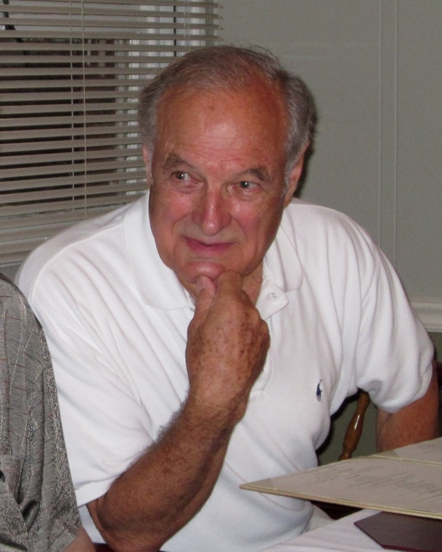 Wolfgang W.E. Samuel, aviation author and retired USAF Colonel, enjoyed lunch with friends at the Army Navy Country Club in Arlington Virginia.